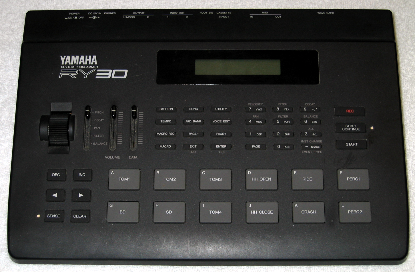 A photograph of the front of a Yamaha RY30 drum machine.